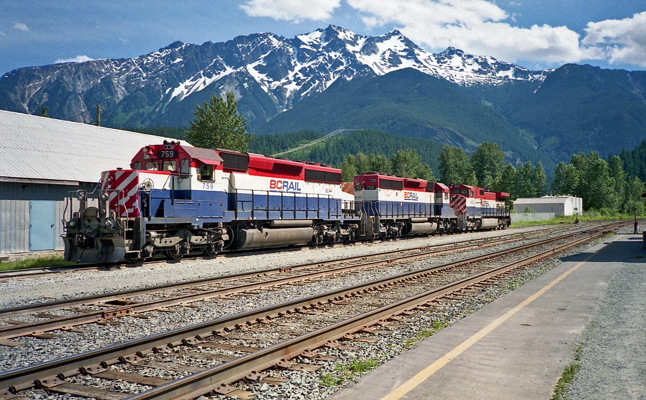 BC Rail locomotives #759 (EMD SD40-2), #756 (EMD SD40-2), #4642 (GE C44-9W) sitting at Pemberton, British Columbia station on 25-Jun-1995